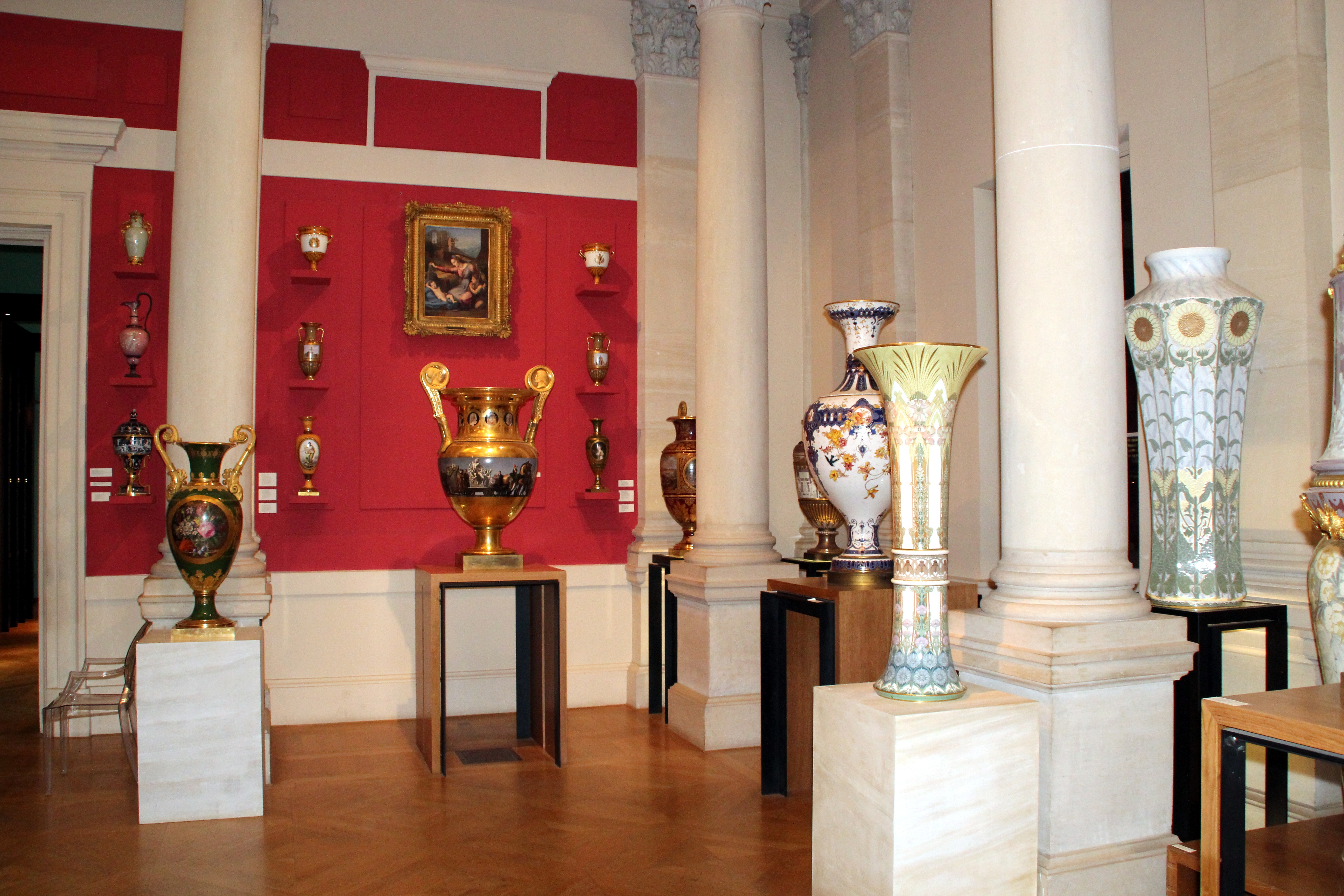 Collections of the Musée national de céramique (National Museum of Ceramics) in Sèvres, France.